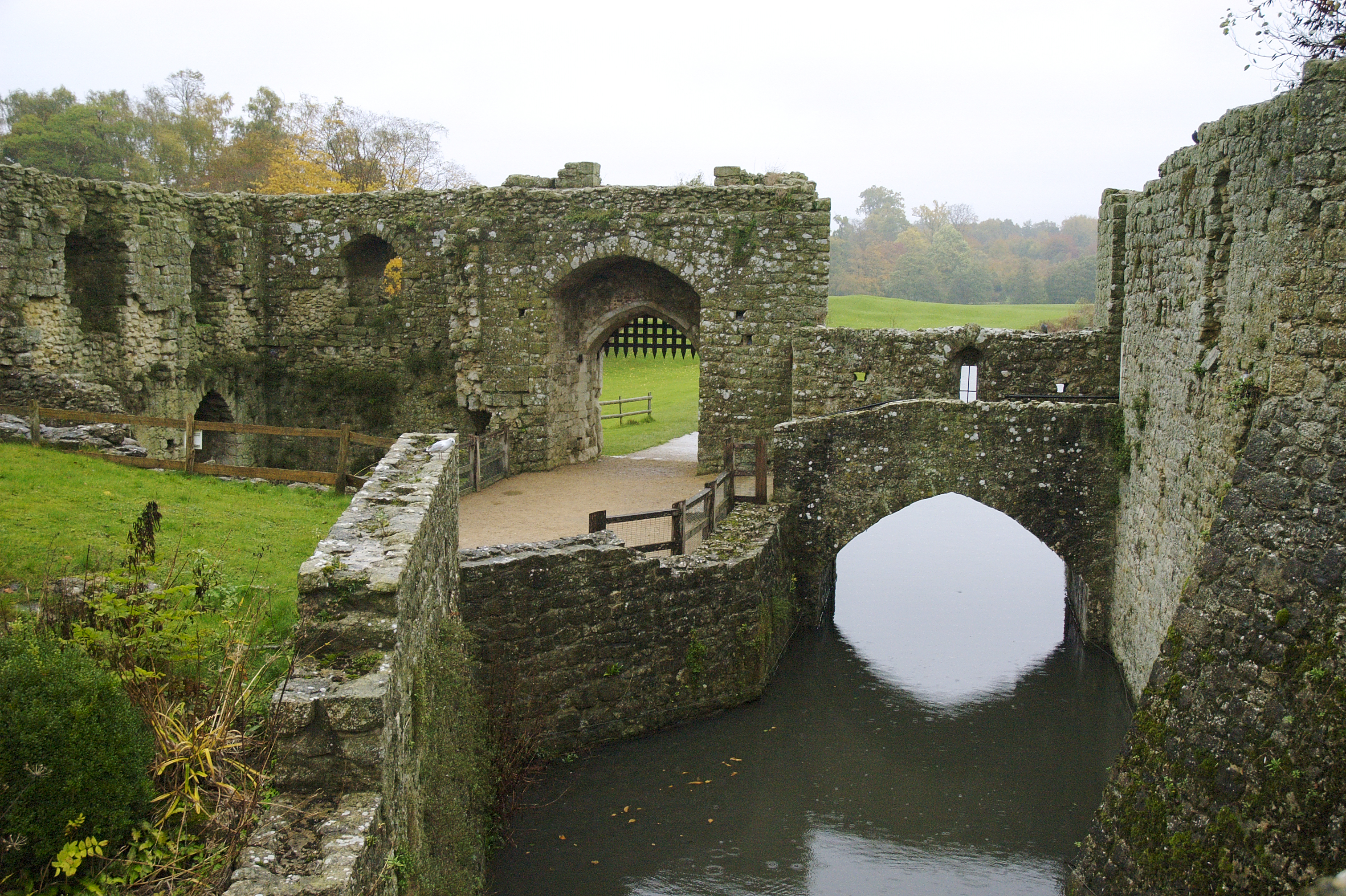 Entrance to Leeds Castle grounds, UK